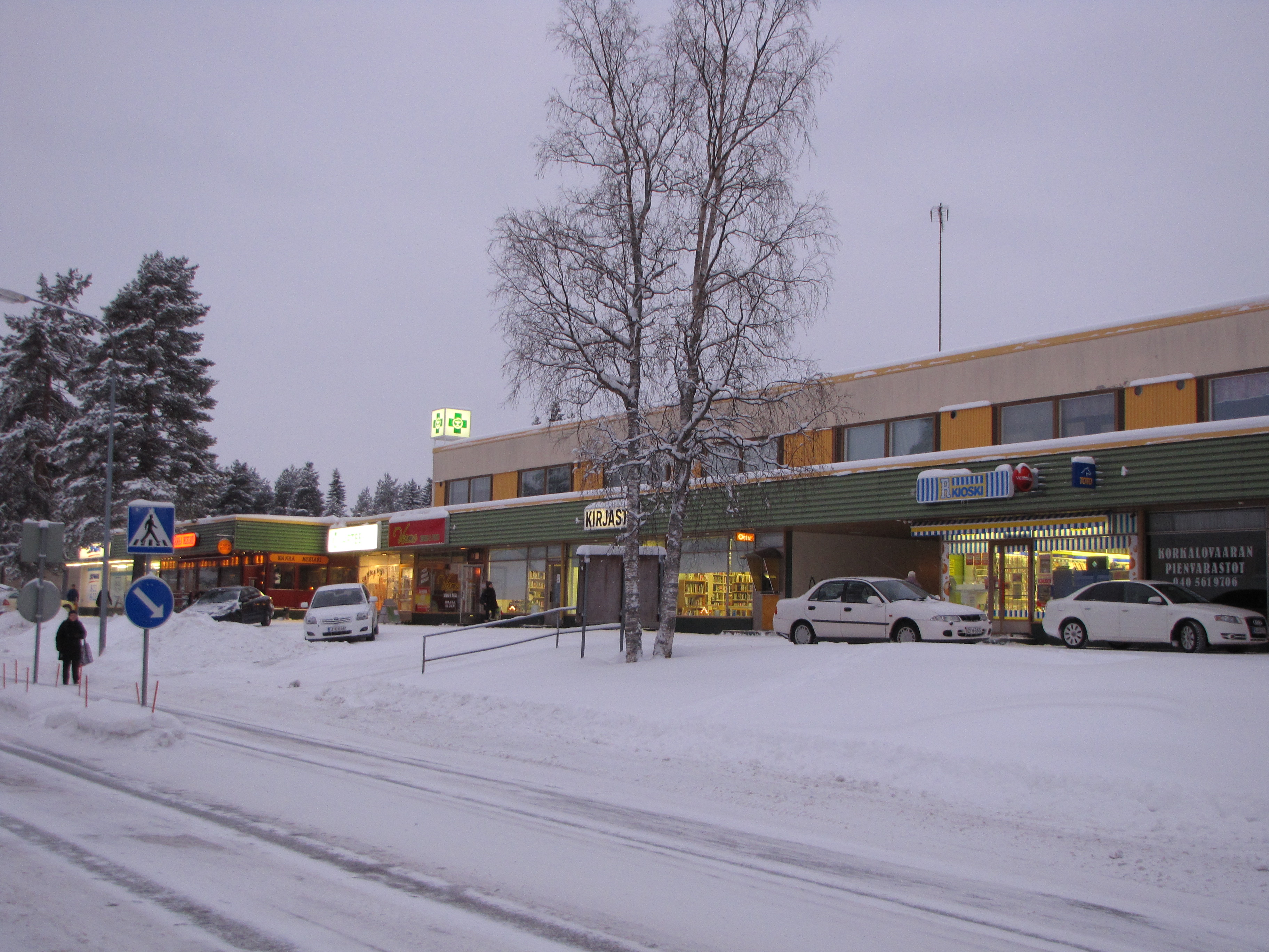 Hillapolku center. Korkalovaara district, Rovaniemi, Finland. December 28th 2012